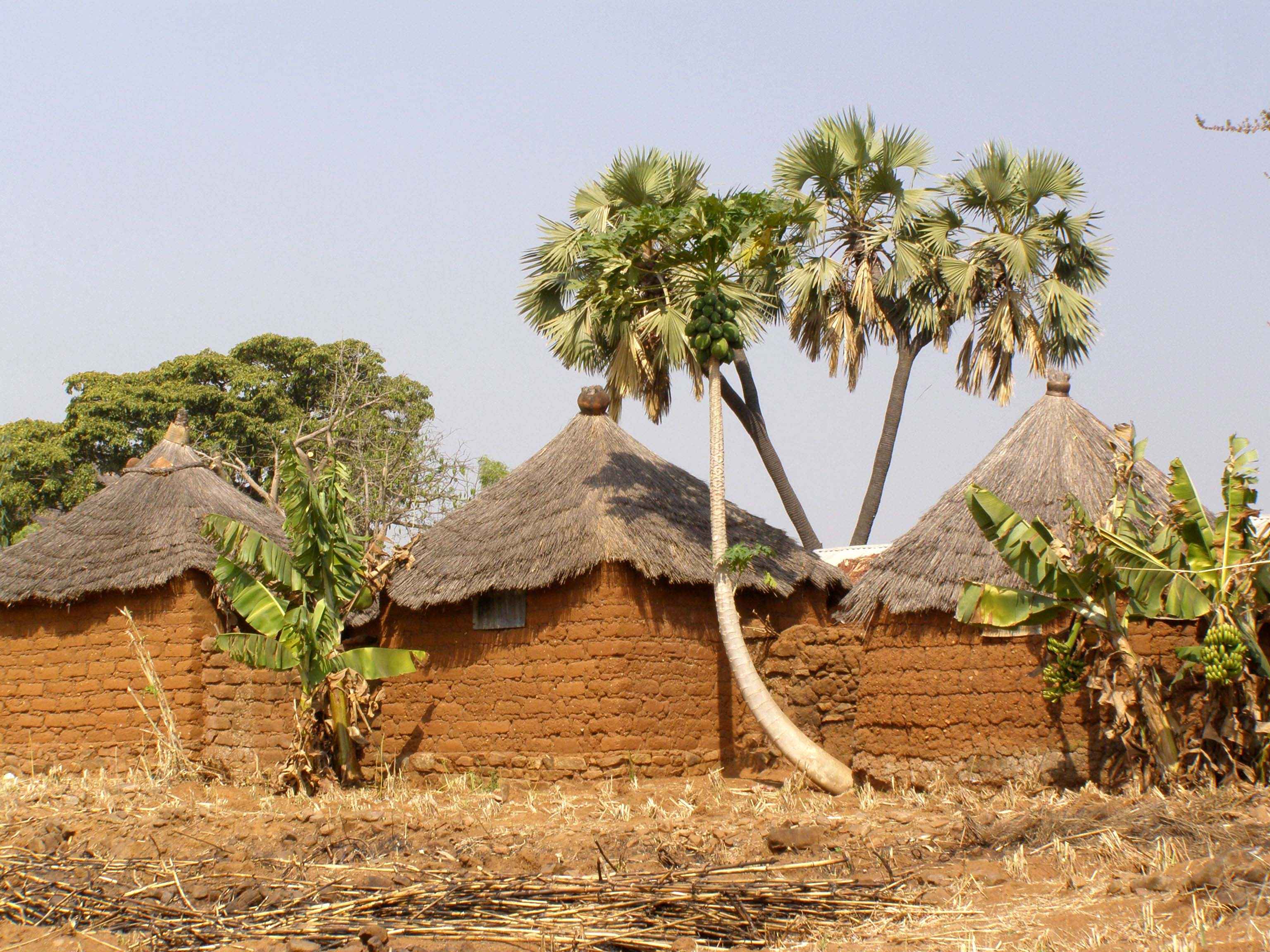 Village of Lassa, Togo